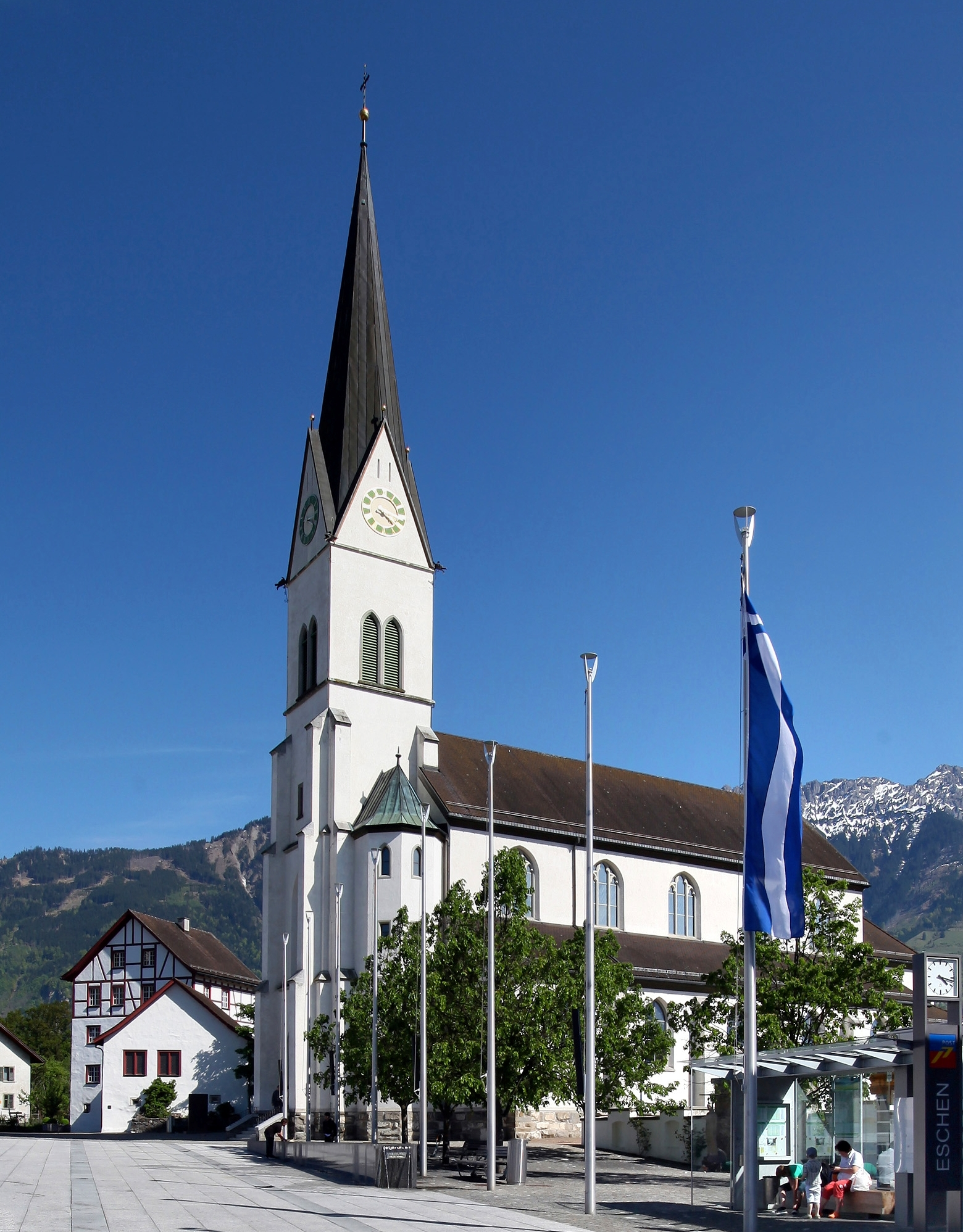 Parish church of Eschen, principality of Liechtenstein